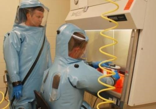 Ebola virus research is conducted in maximum containment Biosafety Level 4, or BSL-4, laboratories, where investigators wear positive-pressure suits and breathe filtered air as they work. Here, scientists Gene Olinger and James Pettit demonstrate BSL-4 laboratory procedures in BSL-4 training laboratory at US Army Medical Research Institute of Infectious Diseases, Fort Detrick, Md.